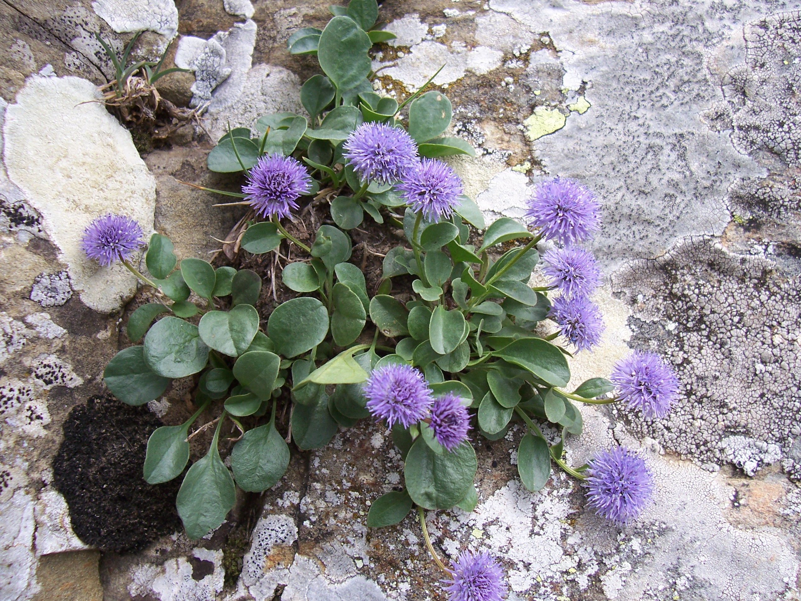 Flowers on mount "Gomito" - Apennine Mountains - Italy